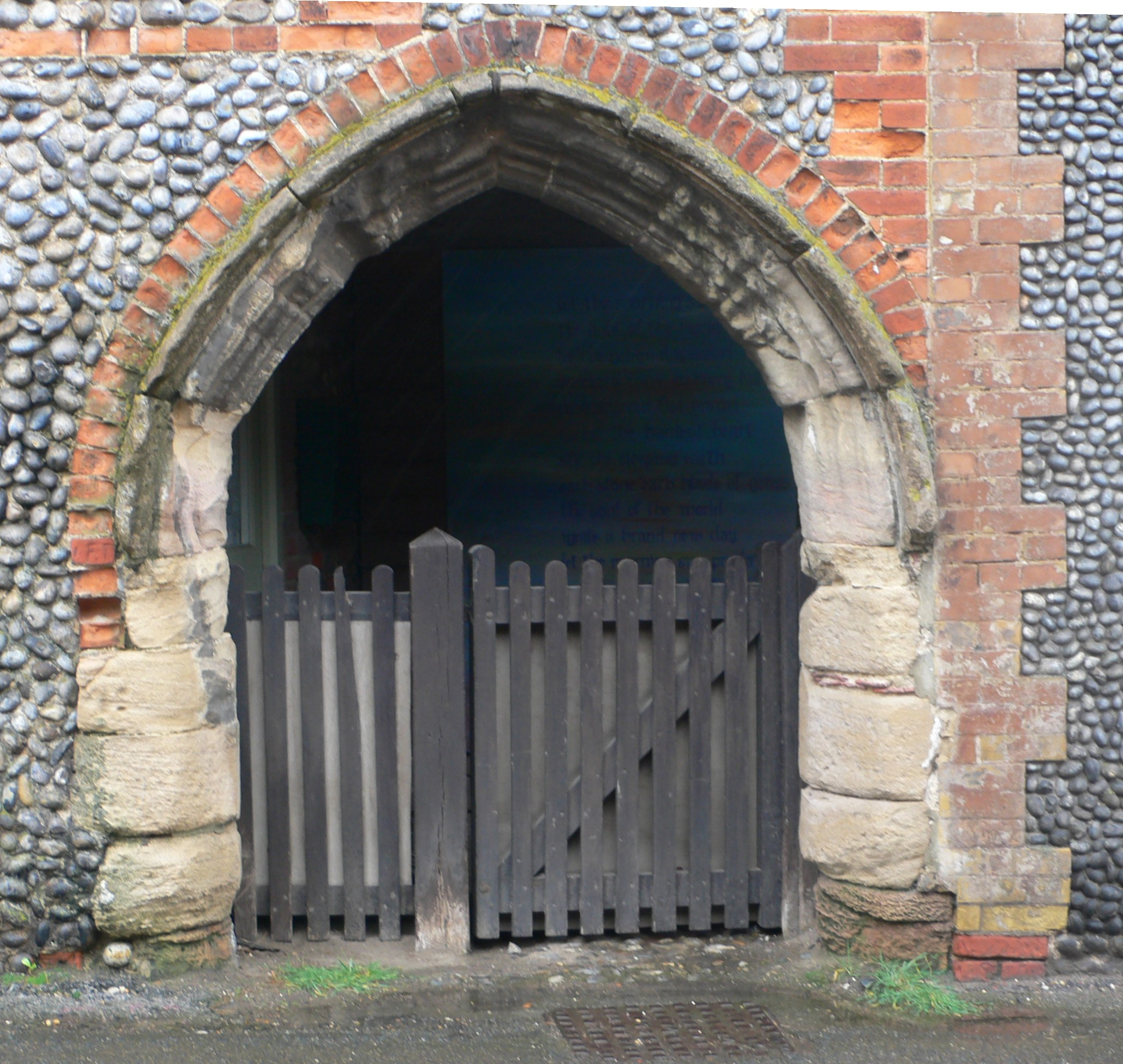 15th century Medieval Arch Incorporated into Maison Du Quai, High Street Cley Next The Sea. This is a grade II listed structure which may have originally been part of Blakeney Chapel